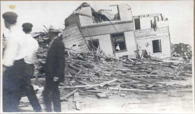 Photo of June 30, 1912 cyclone in Regina, Saskatchewan